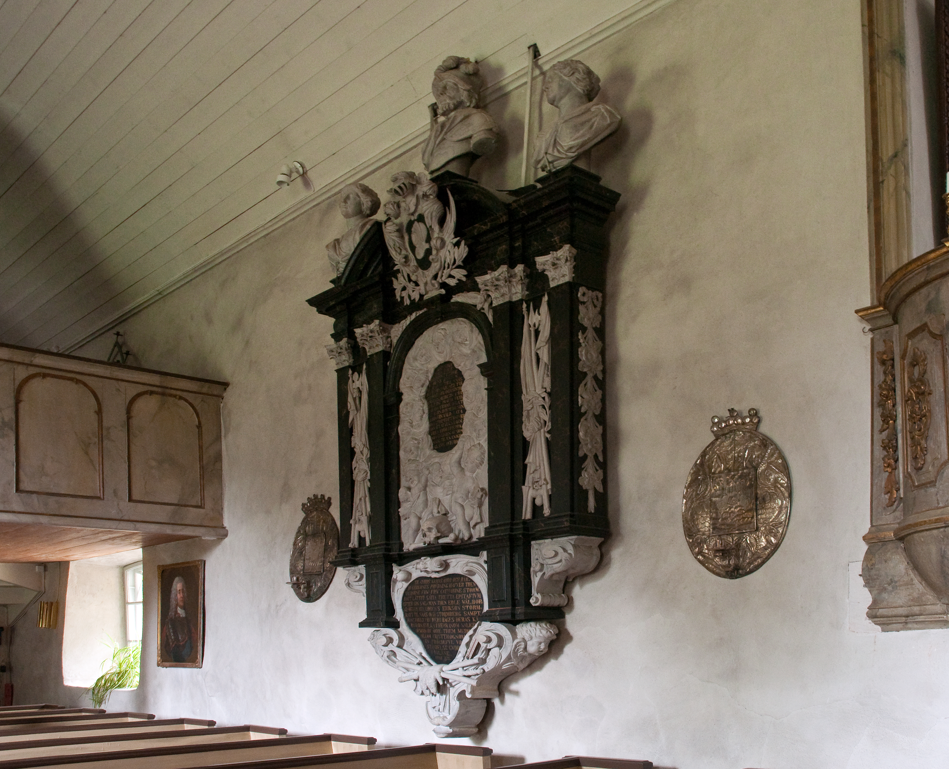 Lorens Stormhatts epitaph in the church Bärbo